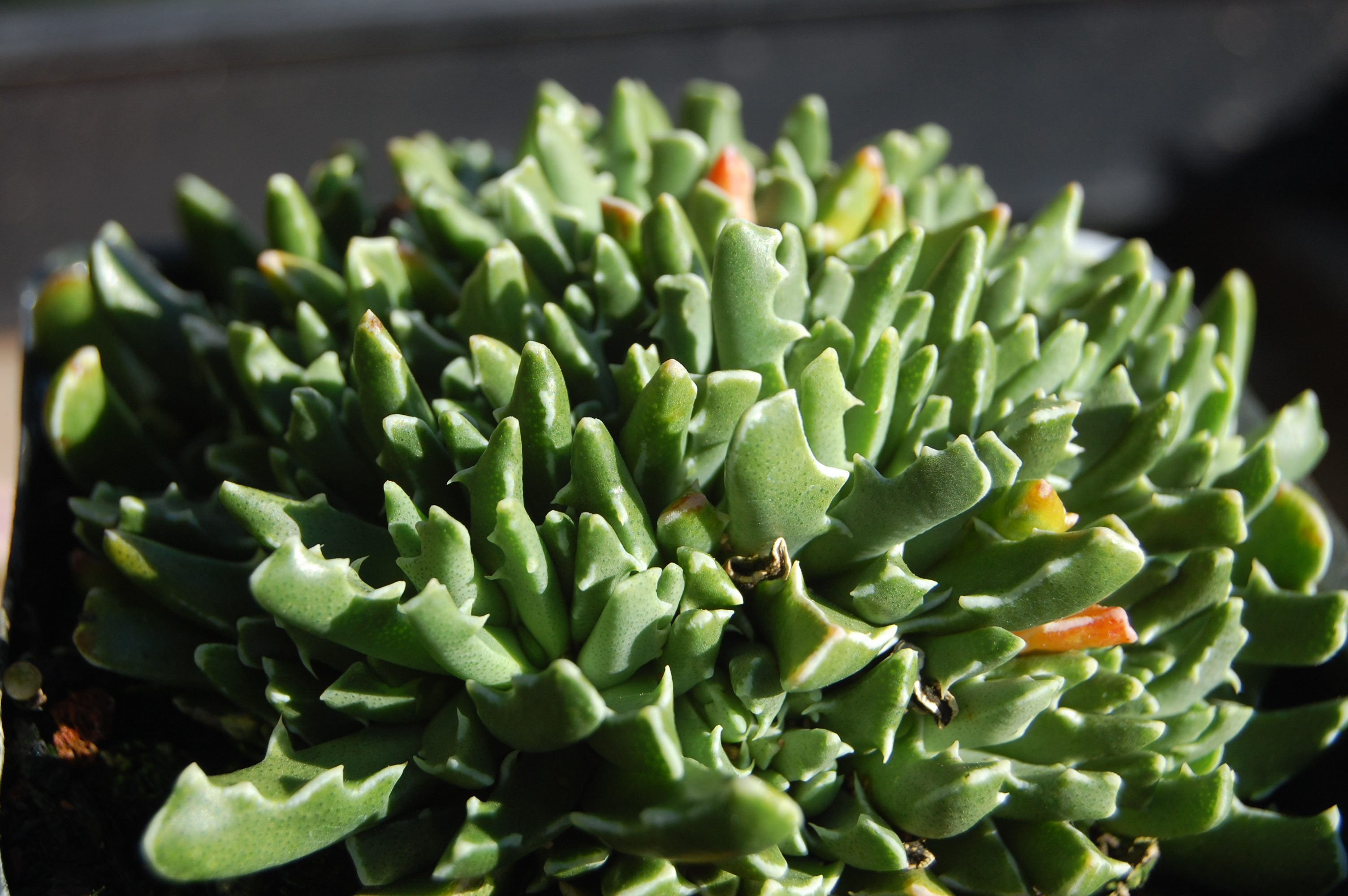 Faucaria bosscheana